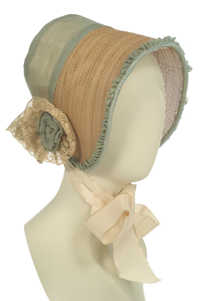 Silk and straw capote bonnet with characteristic round crown and straight brim.